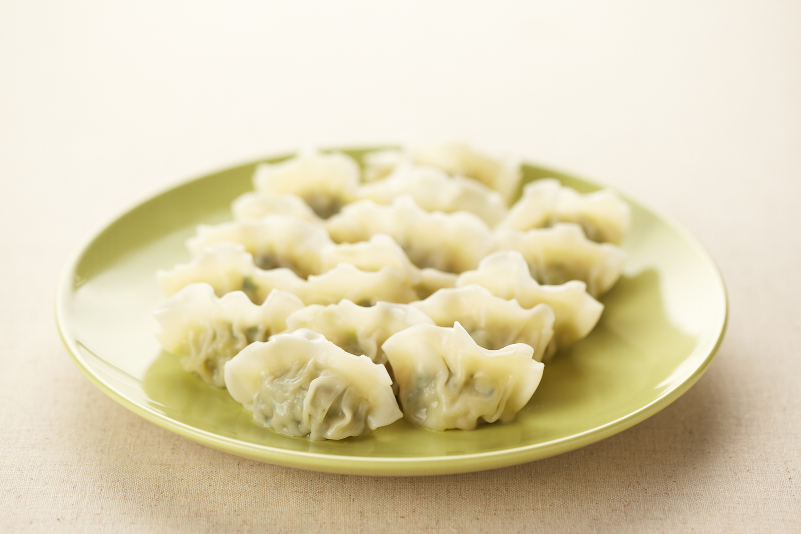 Mulmandu (boiled dumplings)